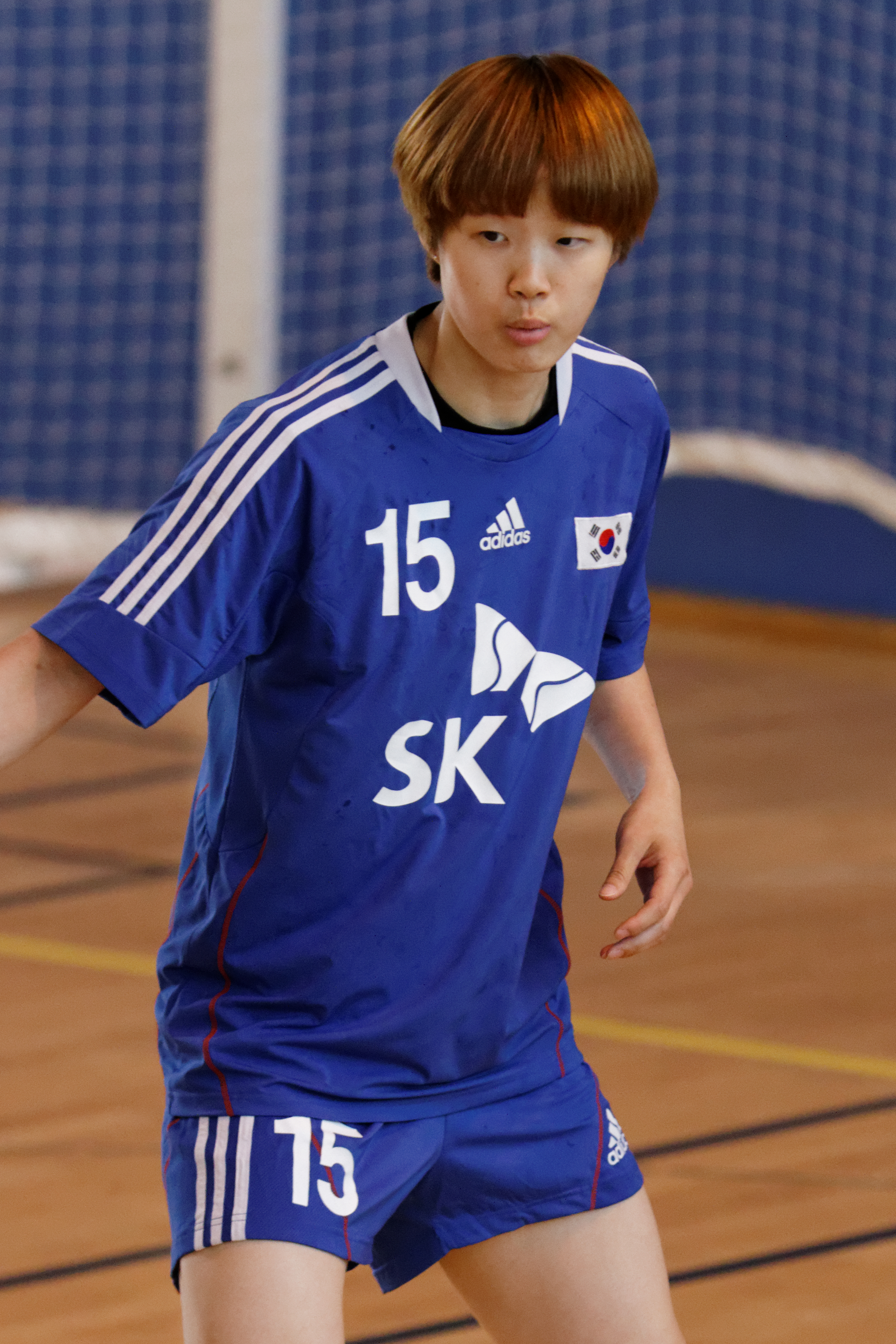 Issy Paris Hand - South Korea, 12 August 2014